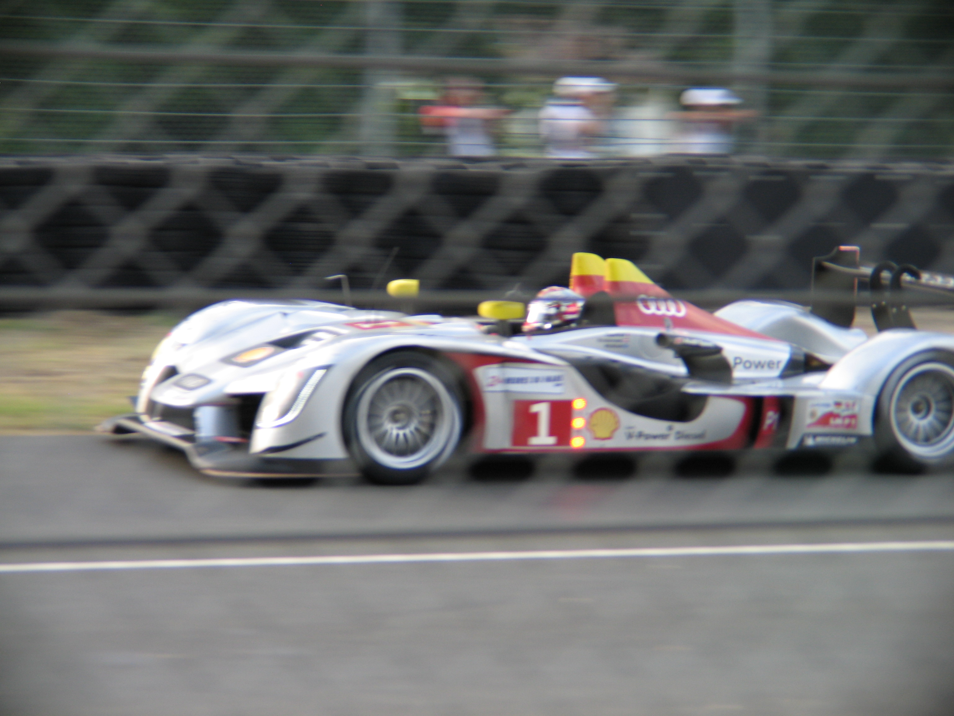 The #1 Audi Sport Team Joest Audi R15 TDI approaching Arnage Corner at the 2009 24 Hours of Le Mans.